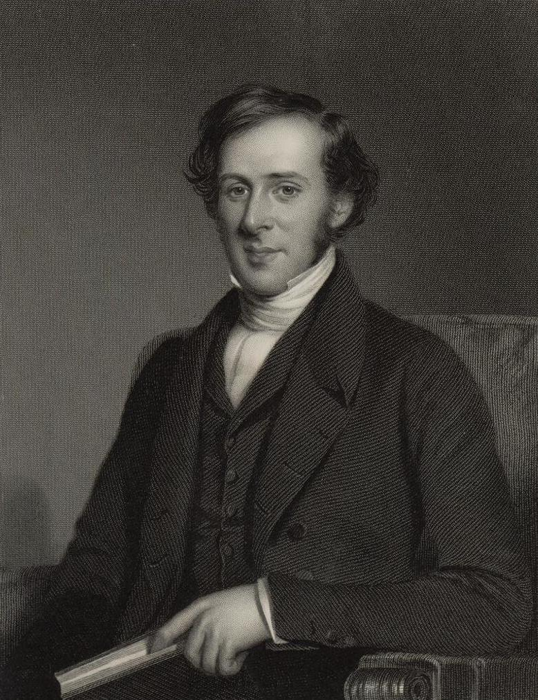 A portrait from the Welsh Portrait Collection at the National Library of Wales. Depicted person: James Hamilton – Scottish minister and a prolific author of religious tracts